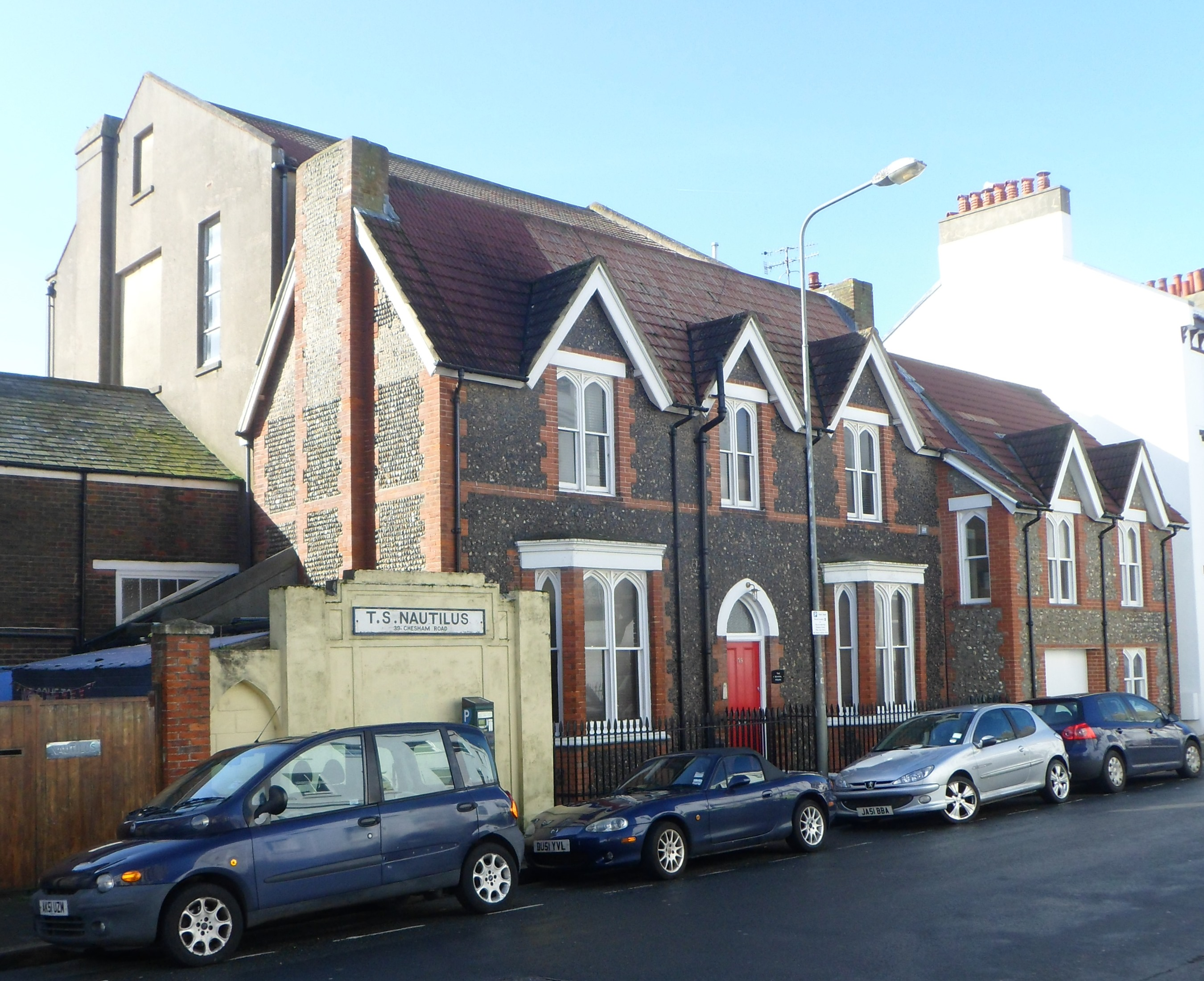 39 Chesham Road, Kemptown, City of Brighton and Hove, England. This building is on Brighton & Hove City Council's Local List of Heritage Assets.